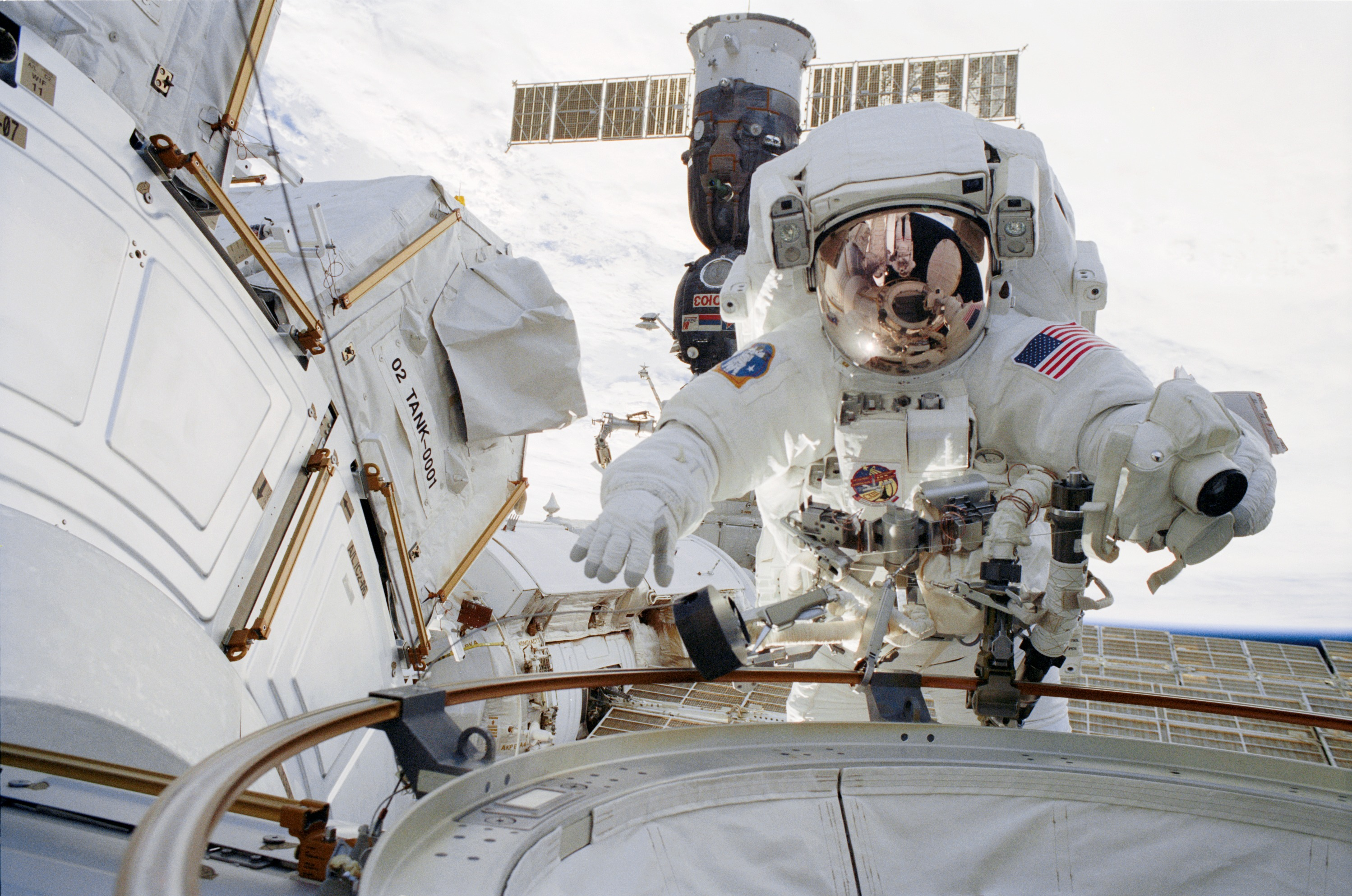 NASA astronaut John Herrington during the first spacewalk of the STS-113 mission. From NASA photo STS113-305-007 (26 November 2002) in public domain.